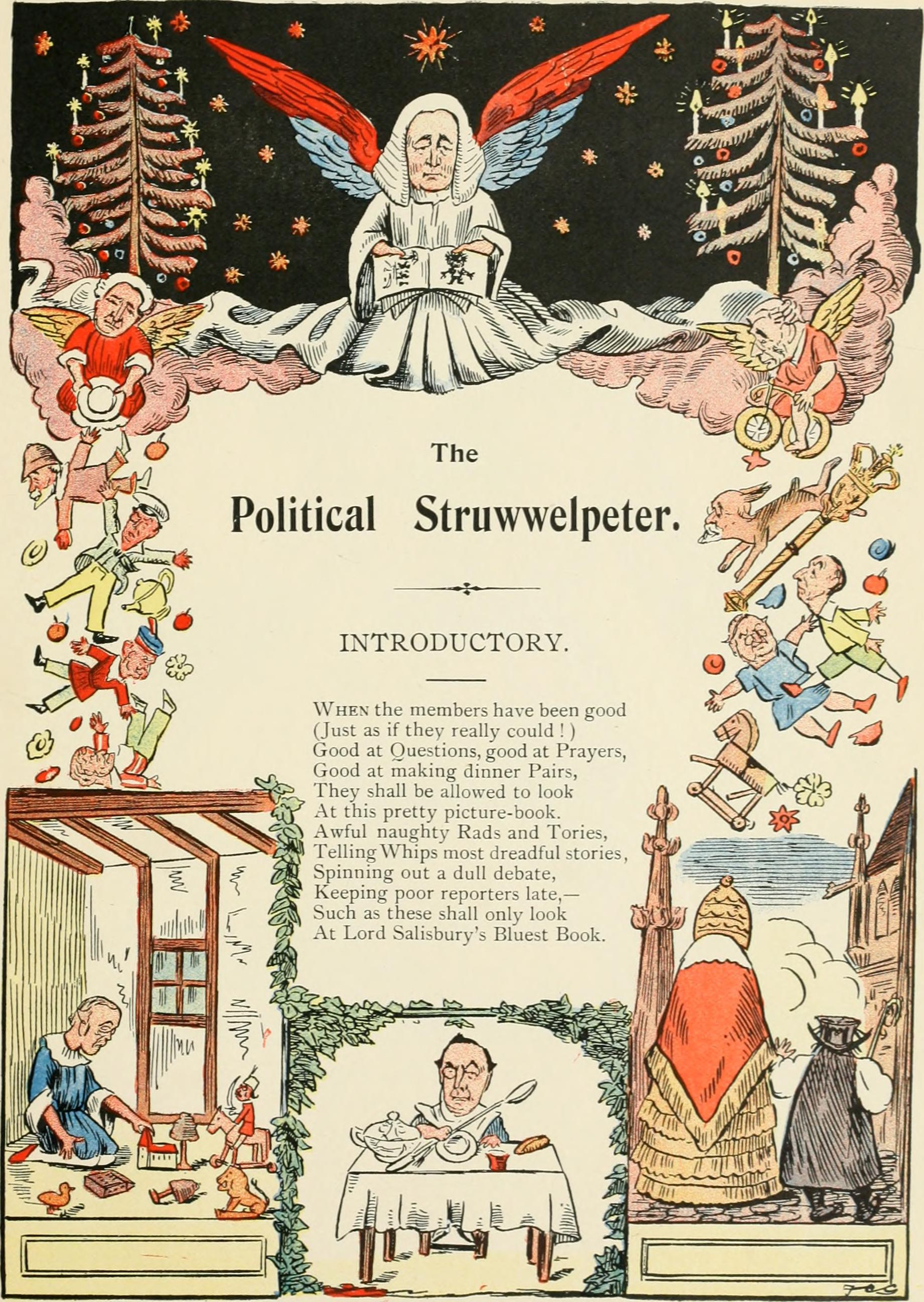 Title: The political Struwwelpeter Year: 1899 (1890s) Authors: Begbie, Harold, 1871-1929 Gould, F. Carruthers (Francis Carruthers), 1844-1925, ill Subjects: Hoffmann, Heinrich, 1809-1894 Caricatures and cartoons Publisher: (London : G. Richards Text Appearing Before Image: THE LIBRARY OF THE UNIVERSITY OF CALIFORNIA LOS ANGELES * Oh r &Z1 lO E. K R. For many days we twain did malceOf harmless jests a little pile, To earn the staff of life, and wakeThe sturdy Britons tardy smile. A novice to the stressful Strand I came to learn the scribblers craft, You helped to form a boyish hand,— Inspired, encouraged, snubbed and chaffed. So much I owe, and what I paySo little! Yet, kind Educator, Because you brushed some specks awayFrom this new-fangled Struwwelpeter— The littleness shall be forgot. And only friendships tribute stand,— A modest, frail forget-me-not Reared in a chamber in the Strand ! H. B. 753791 Ilm.ISIlKRS Anniunckment. .^ ipiiiiil eJition f ThePotitUal Siru-wuelpeler,Umited in 250 copies^ willhe issued ai 21 - ftet etii-h.This edition wiUbeprintedon Japanese vellum, andeach copy signed by theAuthor find A/tiit. First Edilion (5,000 copies), June.Stcoiid Edition (5,000 copies), July.Third Edilion (5,000 copies), October. Text Appearing After Image: ( 1 ) I. The Neglected Lion.politicalstruwwe00begb